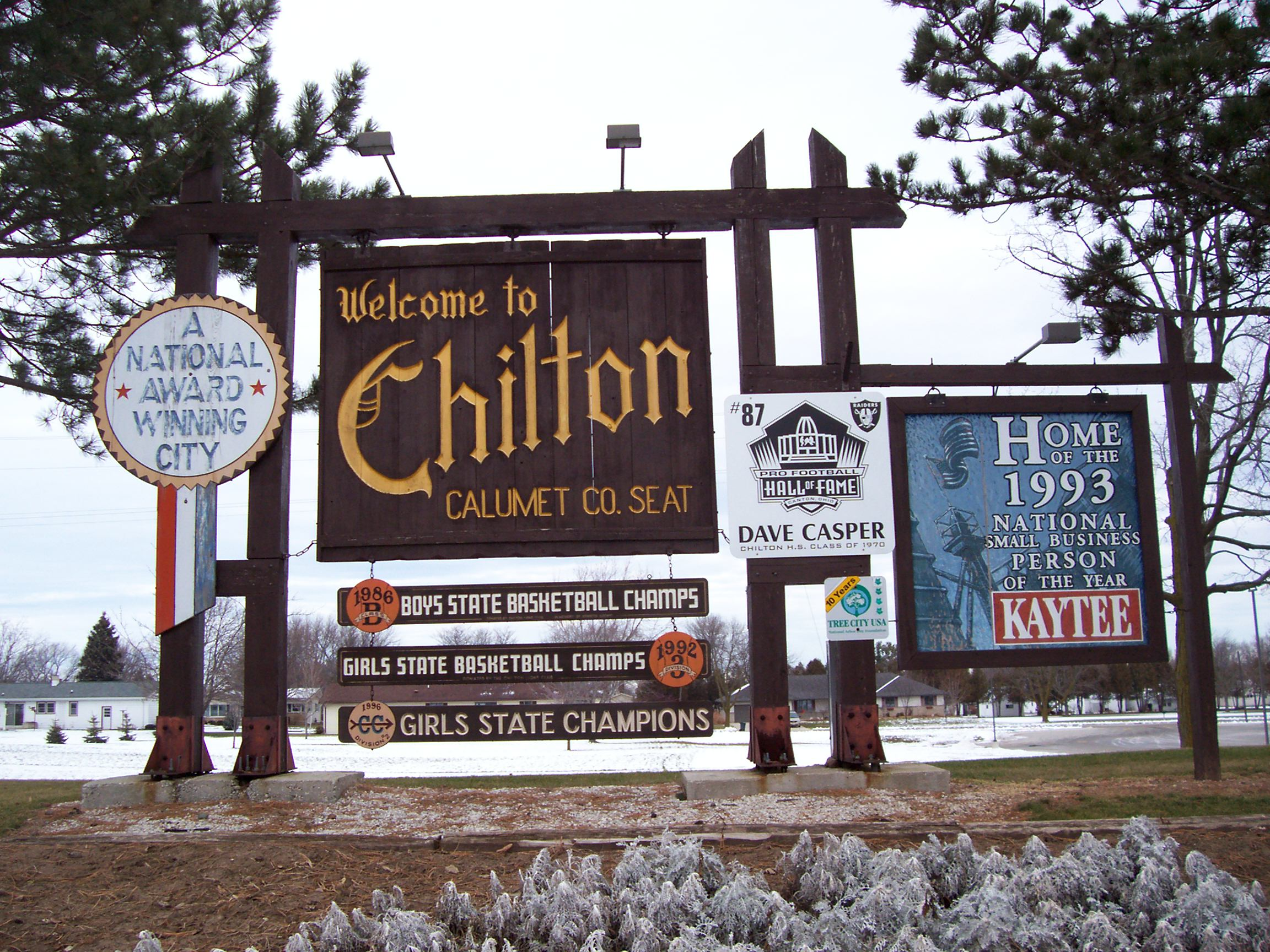 The welcome sign for Chilton, Wisconsin, USA on Wisconsin Highway 57, Wisconsin Highway 32, and U.S. Route 151.